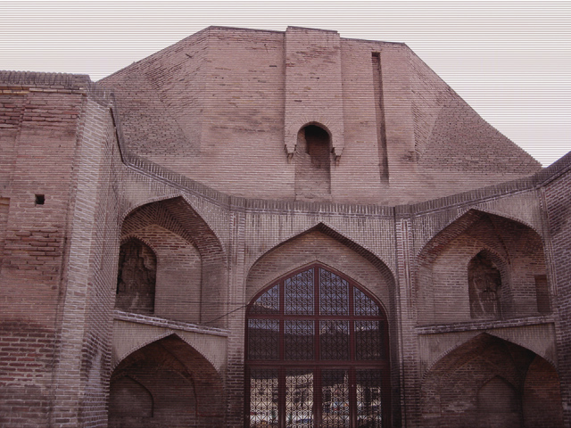 Heidarieh mosque, Qazvin. Now part of an elementary school. The building was built on top of a Zoroastrian fire temple in the pre-Islamic era.